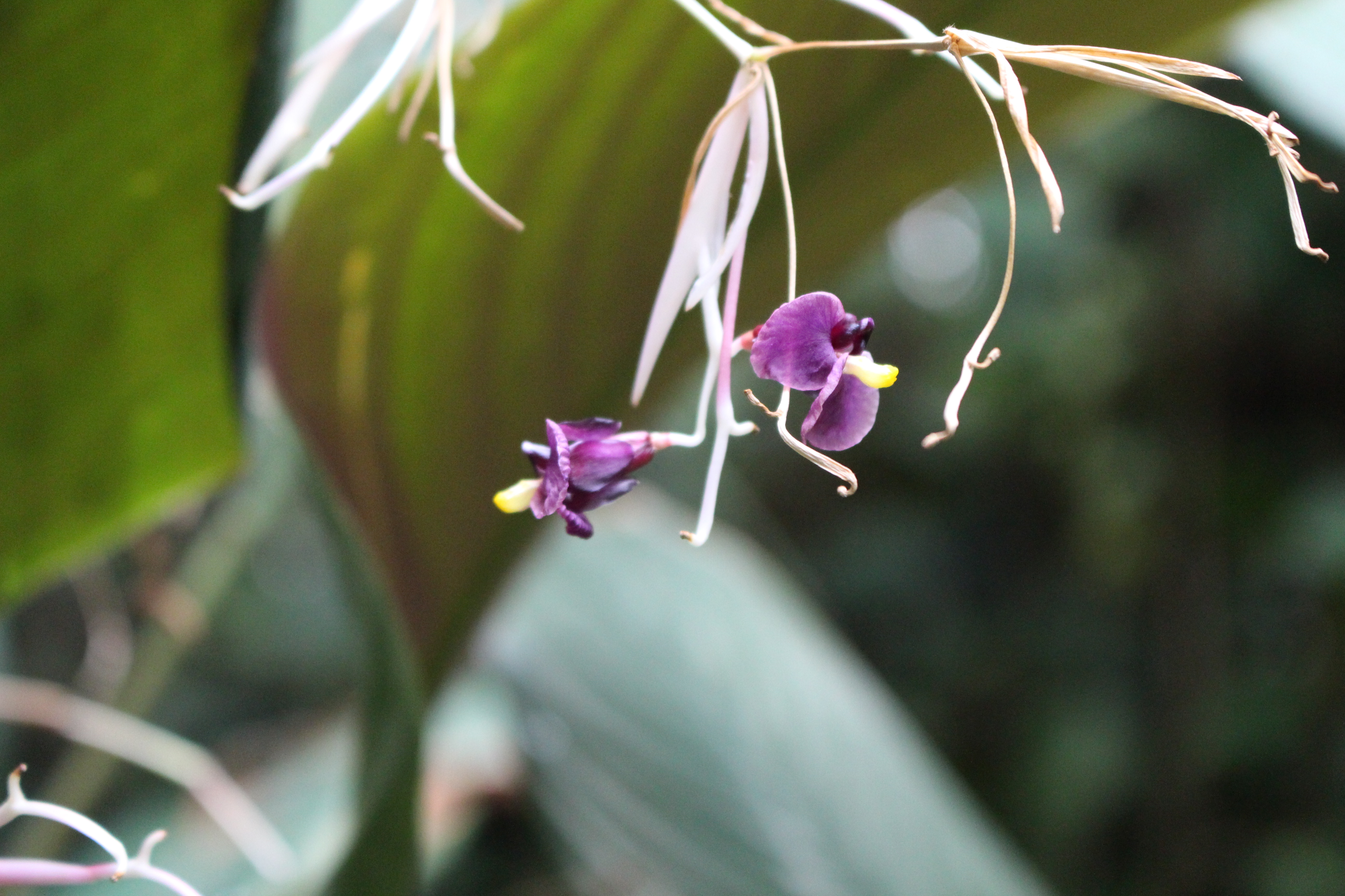 Flowers of Marantochloa purpurea in the Botanical Gardens of Marburg, Germany.